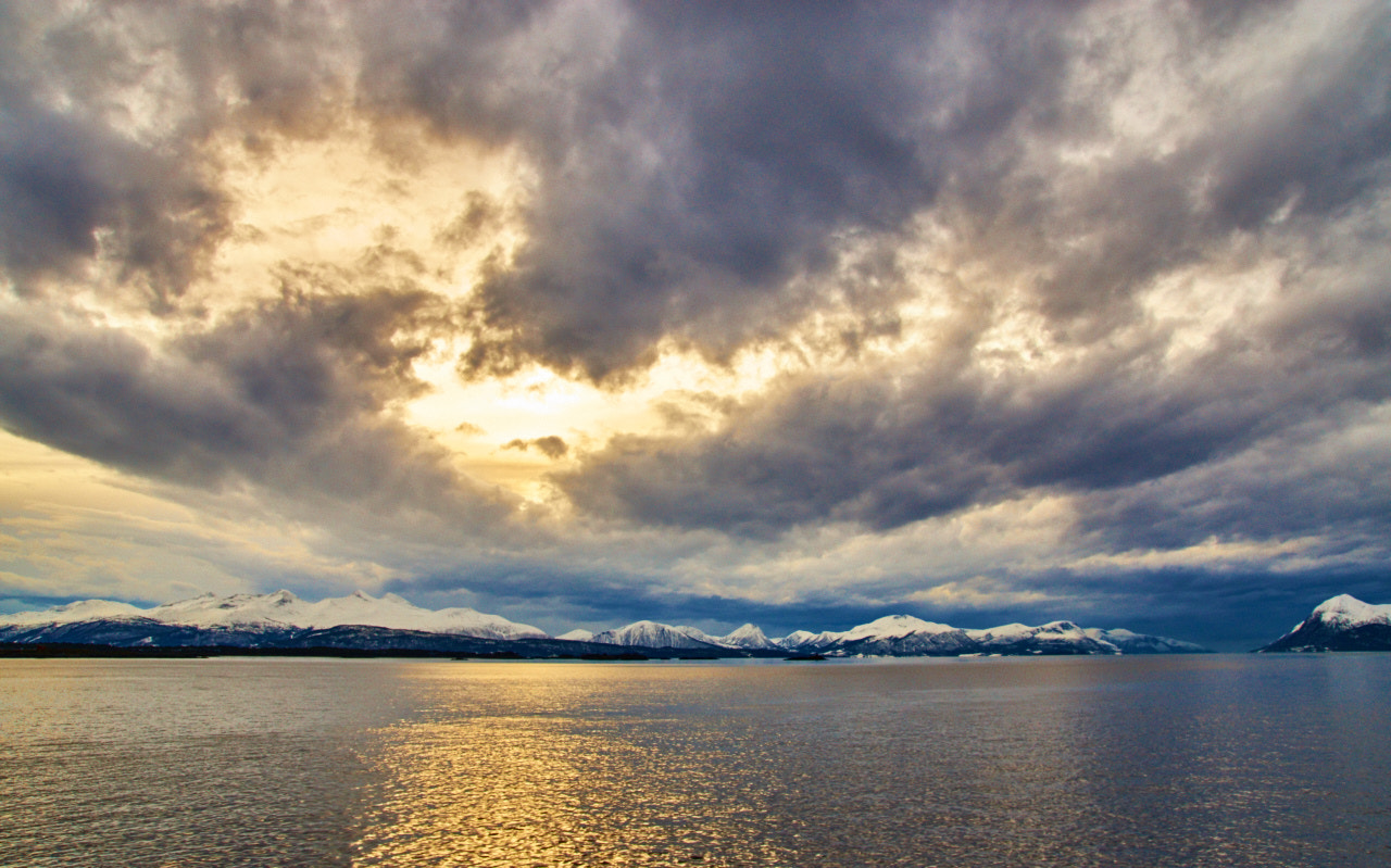 500px provided description: trip to beautiful norway [#sea ,#mountains ,#water ,#blue ,#sun ,#snow ,#norway ,#dramatic ,#nice ,#Popular Tags]